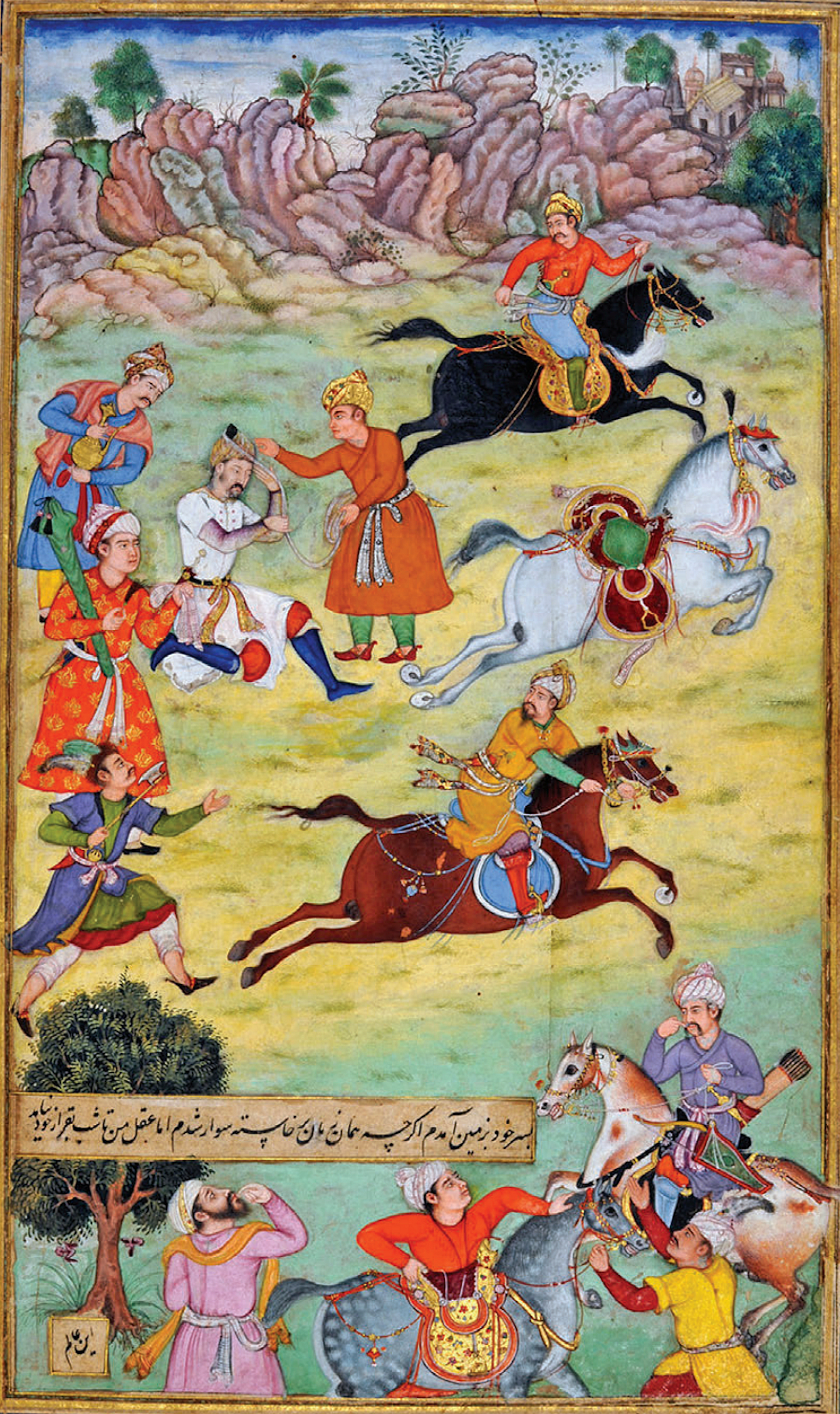 The "Memoirs of Babur" or Baburnama are the work of the great-great-great-grandson of Timur (Tamerlane), Zahiruddin Muhammad Babur (1483-1530). The Baburnama tells the tale of the prince's struggle first to assert and defend his claim to the throne of Samarkand and the region of the Fergana Valley. After being driven out of Samarkand in 1501 by the Uzbek Shaibanids, he ultimately sought greener pastures, first in Kabul and then in northern India, where his descendants were the Moghul (Mughal) dynasty ruling in Delhi until 1858. The miniatures are from an illustrated copy of the Baburnama prepared for the author's grandson, the Mughal Emperor Akbar. It is worth remembering that the miniatures reflect the culture of the court at Delhi; hence, for example, the architecture of Central Asian cities resembles the architecture of Mughal India. Nonetheless, these illustrations are important as evidence of the tradition of exquisite miniature painting which developed at the court of Timur and his successors. Timurid miniatures are among the greatest artistic achievements of the Islamic world in the fifteenth and sixteenth centuries. Illustrations of Mughals from the Baburnama